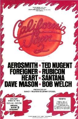 Cal Jam 2 Poster Art